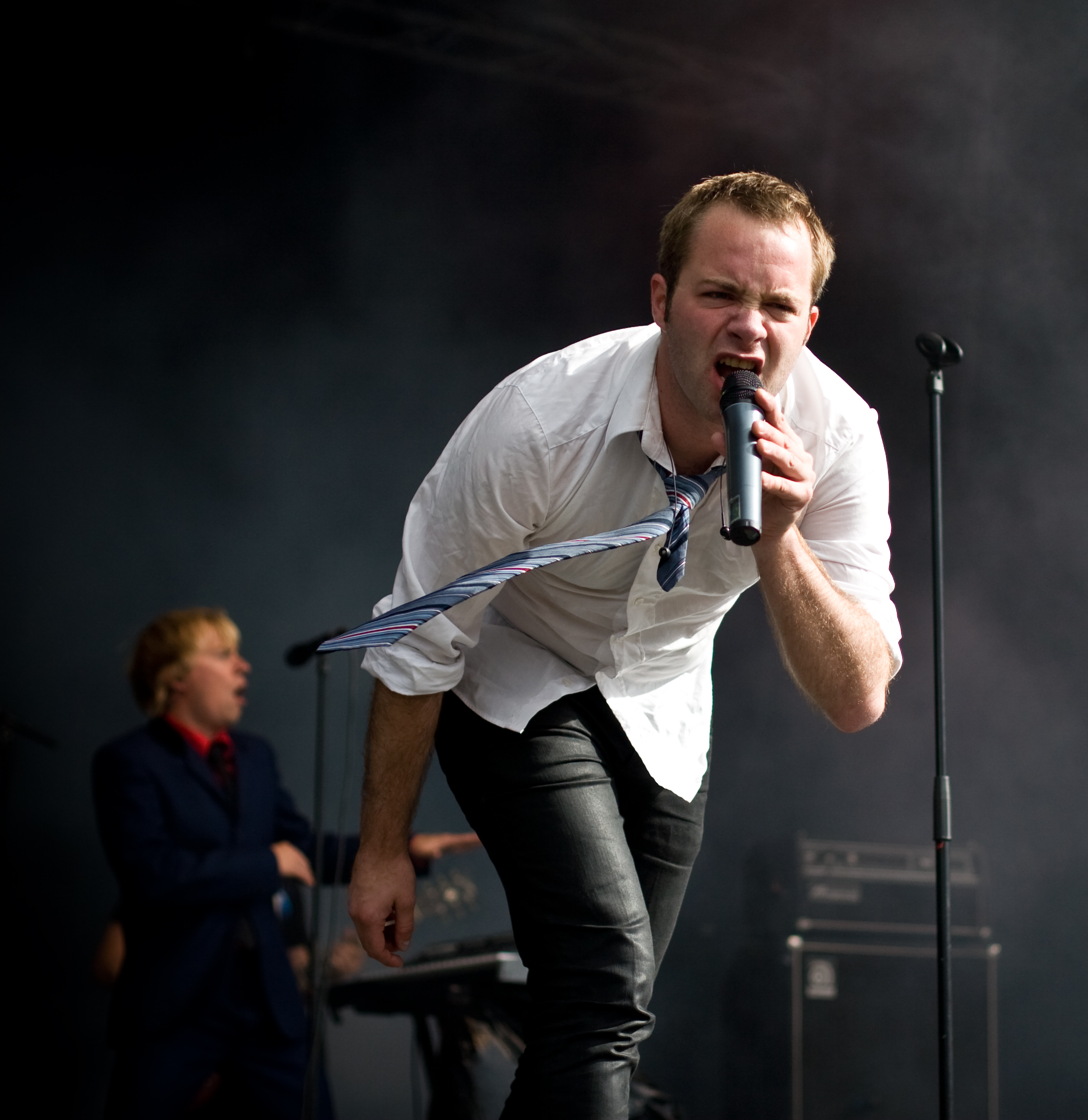 Superfamily performing at the pstereo festival in Trondheim, Norway in 2007.